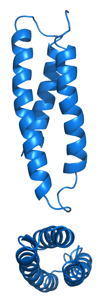 Cartoon representation of a coiled coil structure in a protein. Based on the NMR structure of PDB 1VCS (truncated).